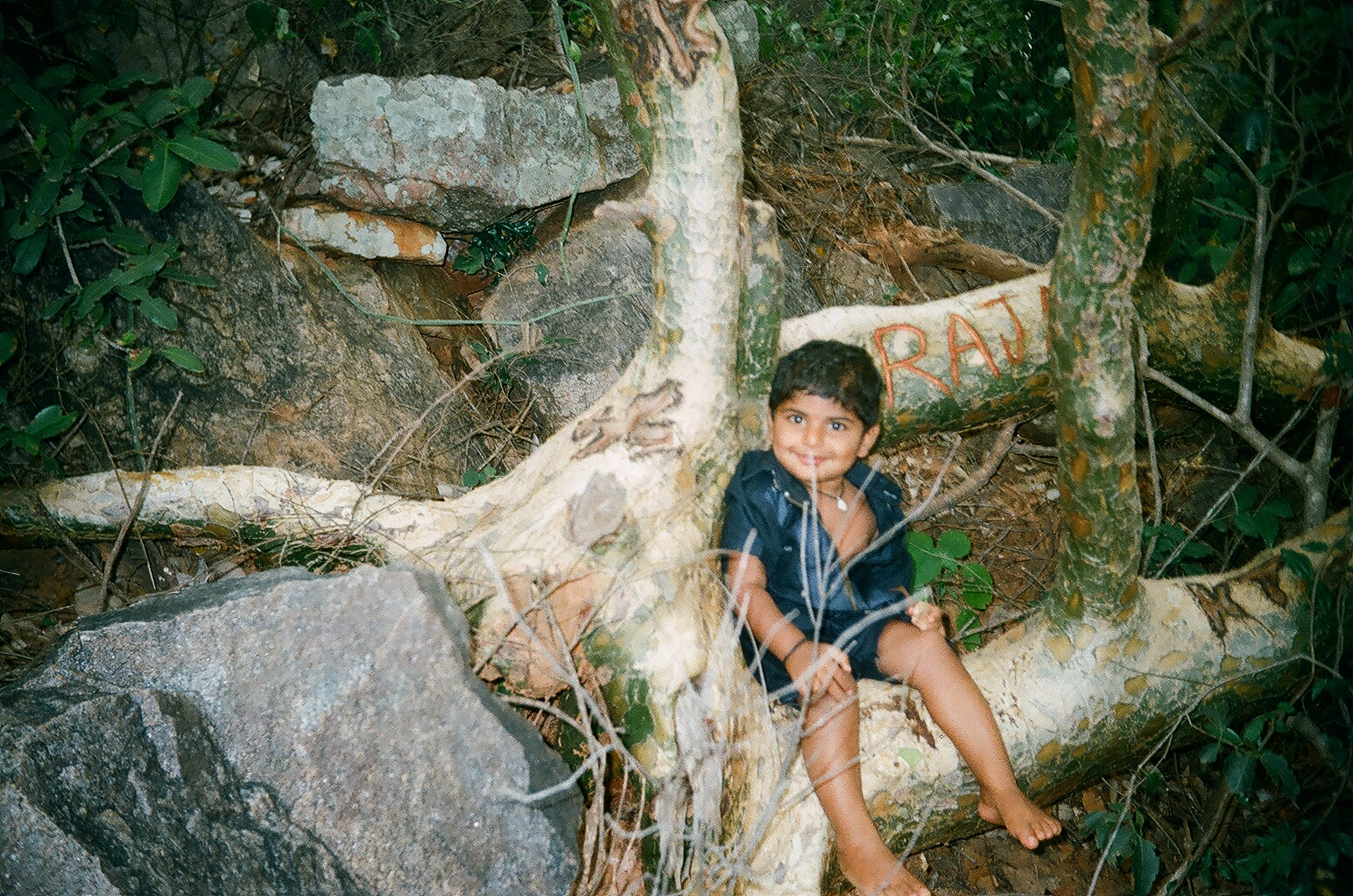 Branch of Tree